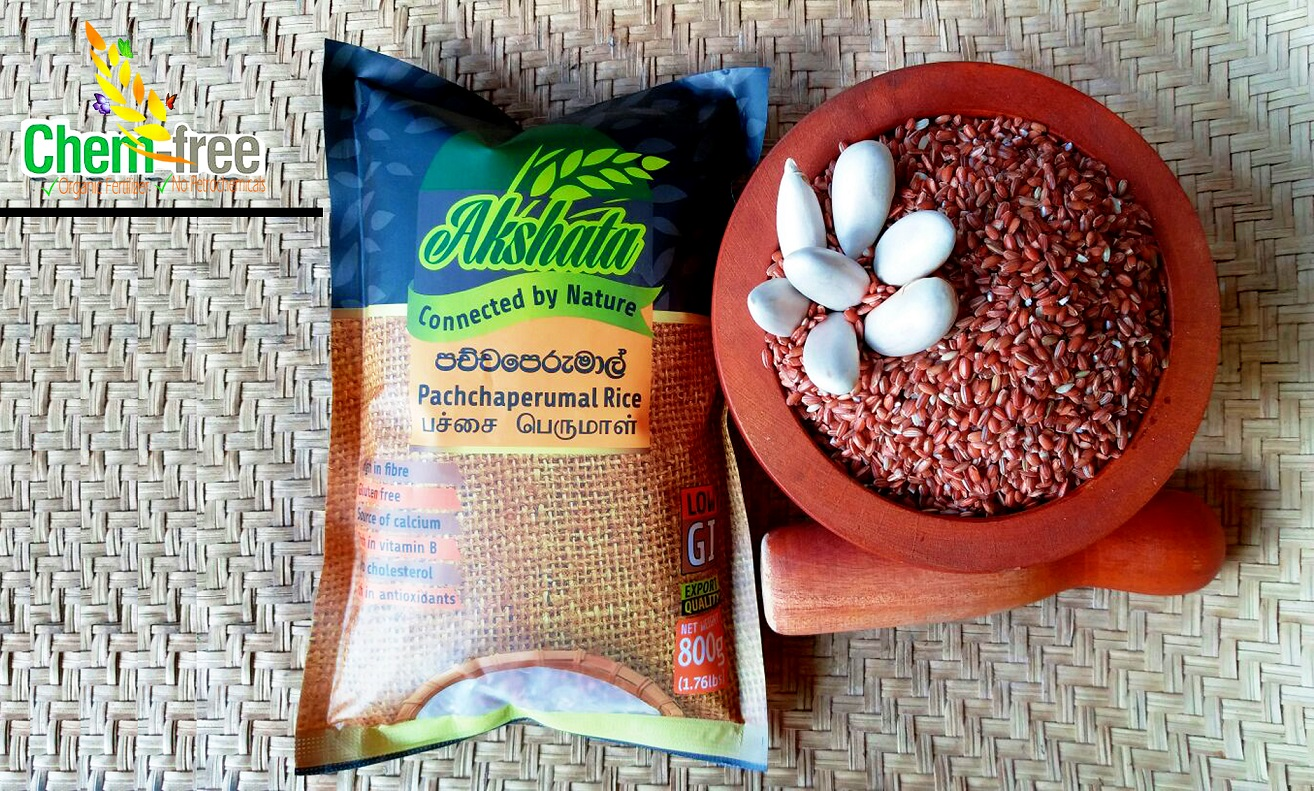 Traditional Heirloom rice of Sri Lanka